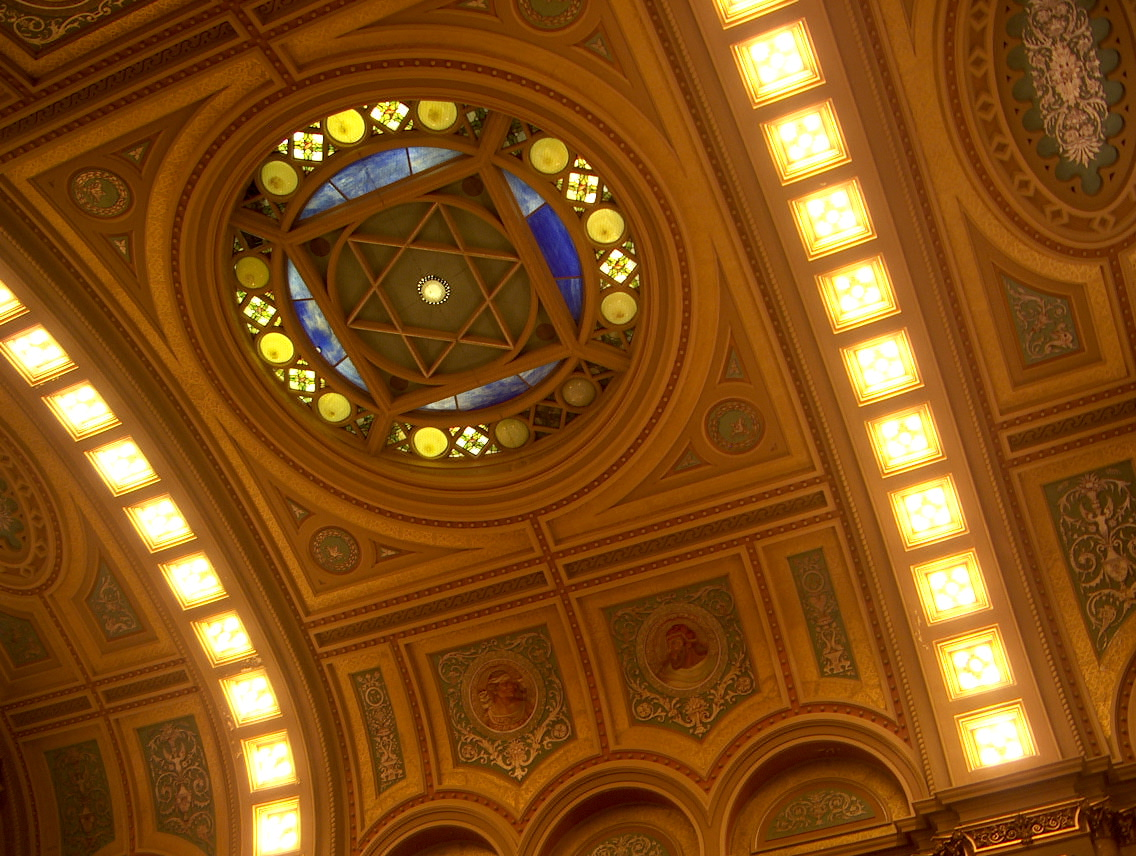 Masonic Temple of Philadelphia